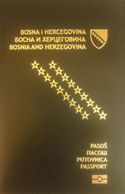 Bosnian passport